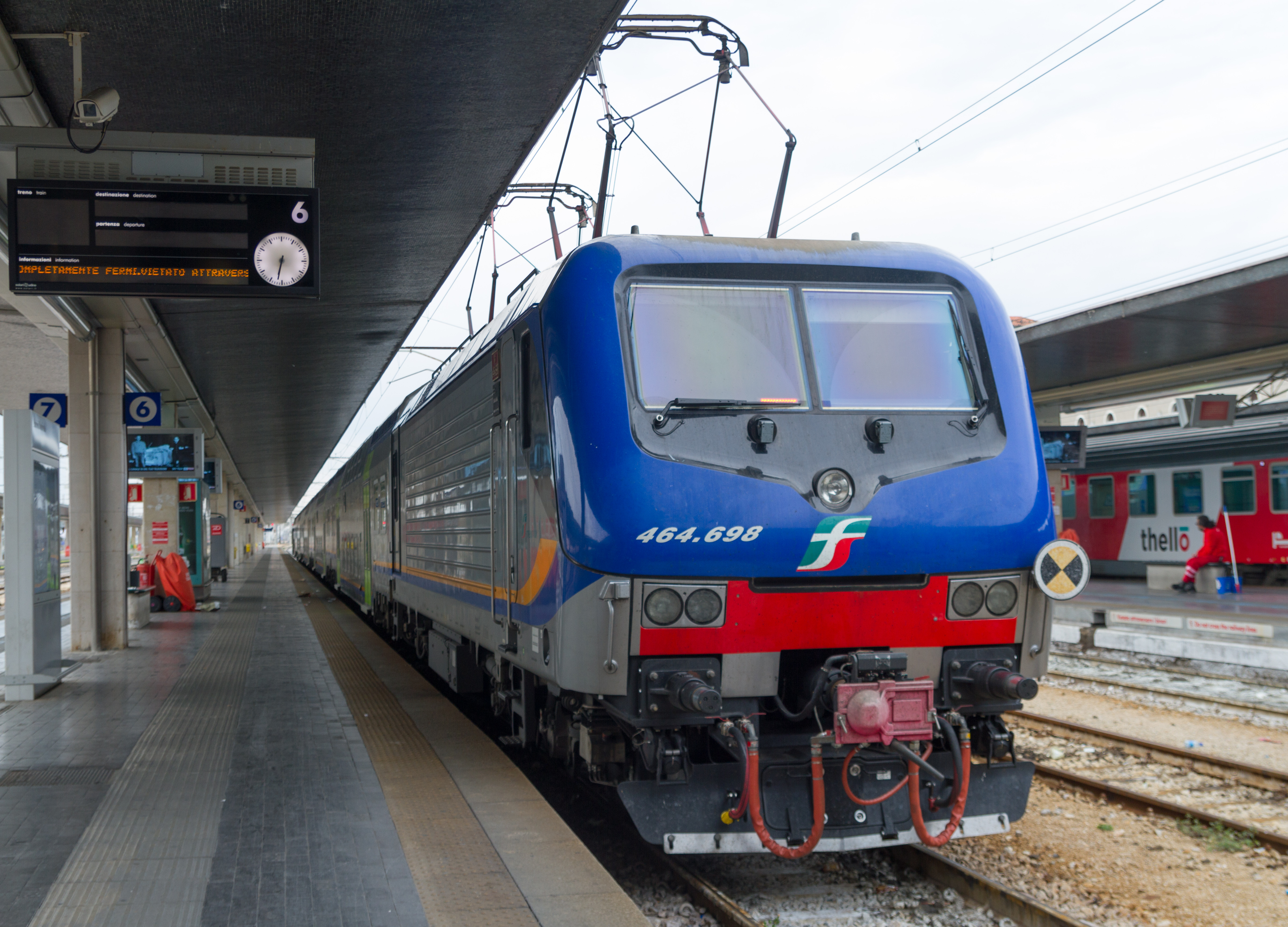 FS E.464 at Venezia Santa Lucia train station